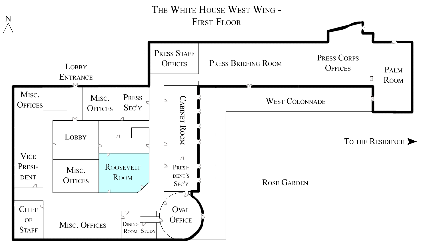 A floorplan of the first floor of the West Wing of the White House with the Roosevelt Room highlighted. Note that, depending on the administration, some positions (V.P., Chief of Staff, etc.) may be located in different offices than are shown here. Image is not to scale.